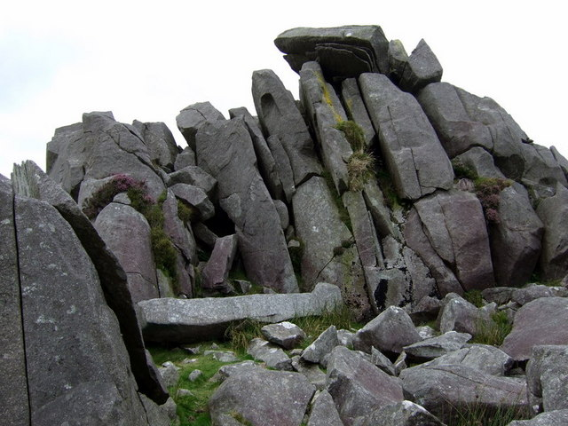 Carn Menyn bluestones. These dolerite slabs, split by frost action, seem to be stacked ready for the taking and many have been removed over the centuries for use locally but it remains a moot point whether the Stonehenge bluestones were conveyed thence by human or glacial means. Supporters of the former hypothesis suggest that the horizontal slab at the foot of the crag was selected and prepared for Stonehenge but in the event not needed. More recently stones have been removed for a variety of purposes for example 1042547.